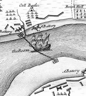 Detail of boom defence in Siege of Londonderry